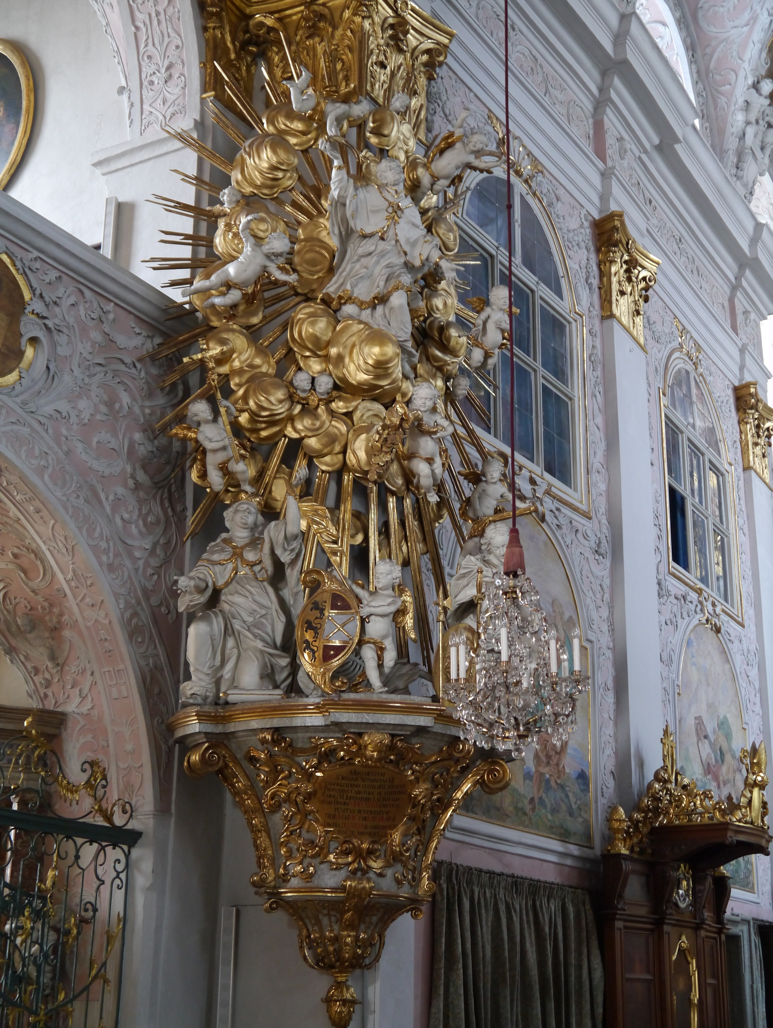 Counter Pulpit of the Cathedral/Minster Sts. Peter & Paul, Klagenfurt, Carinthia